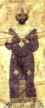 The Byzantine emperor Nicephorus III (dead in 1081).